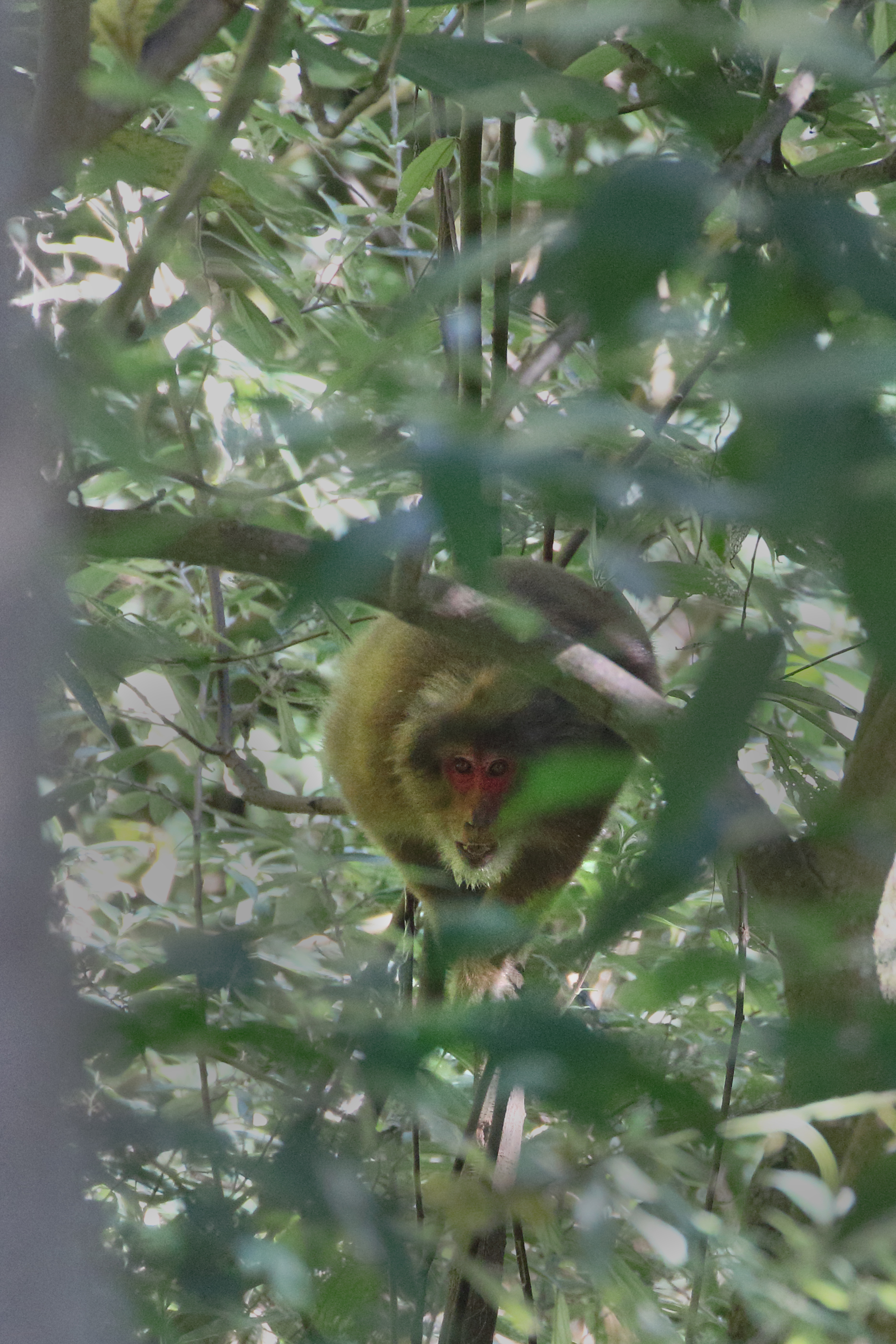 The rare macaque White-cheeked Macaque was seen and photographed from Walong, Arunachal Pradesh, India in November 2019.